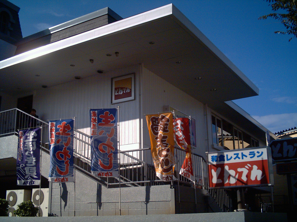 tonden-Restaurant_in Japan photography day, 2006/11/21 photography person kici